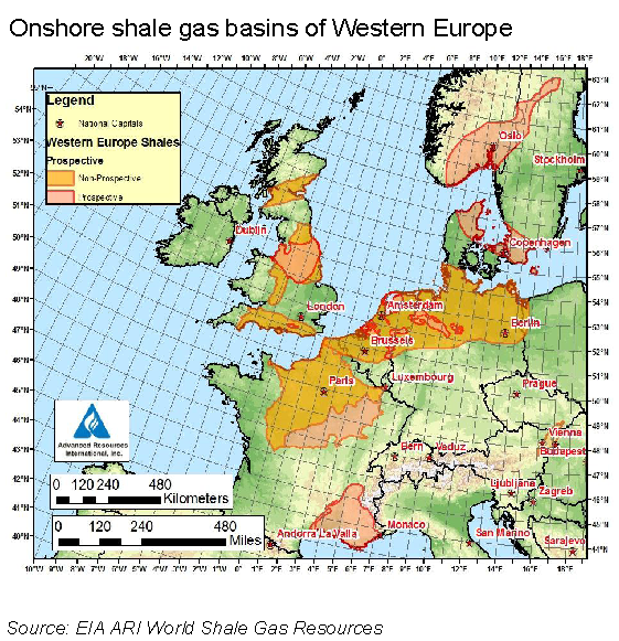 Potential shale gas bains in Europe (US EIA, 2011)